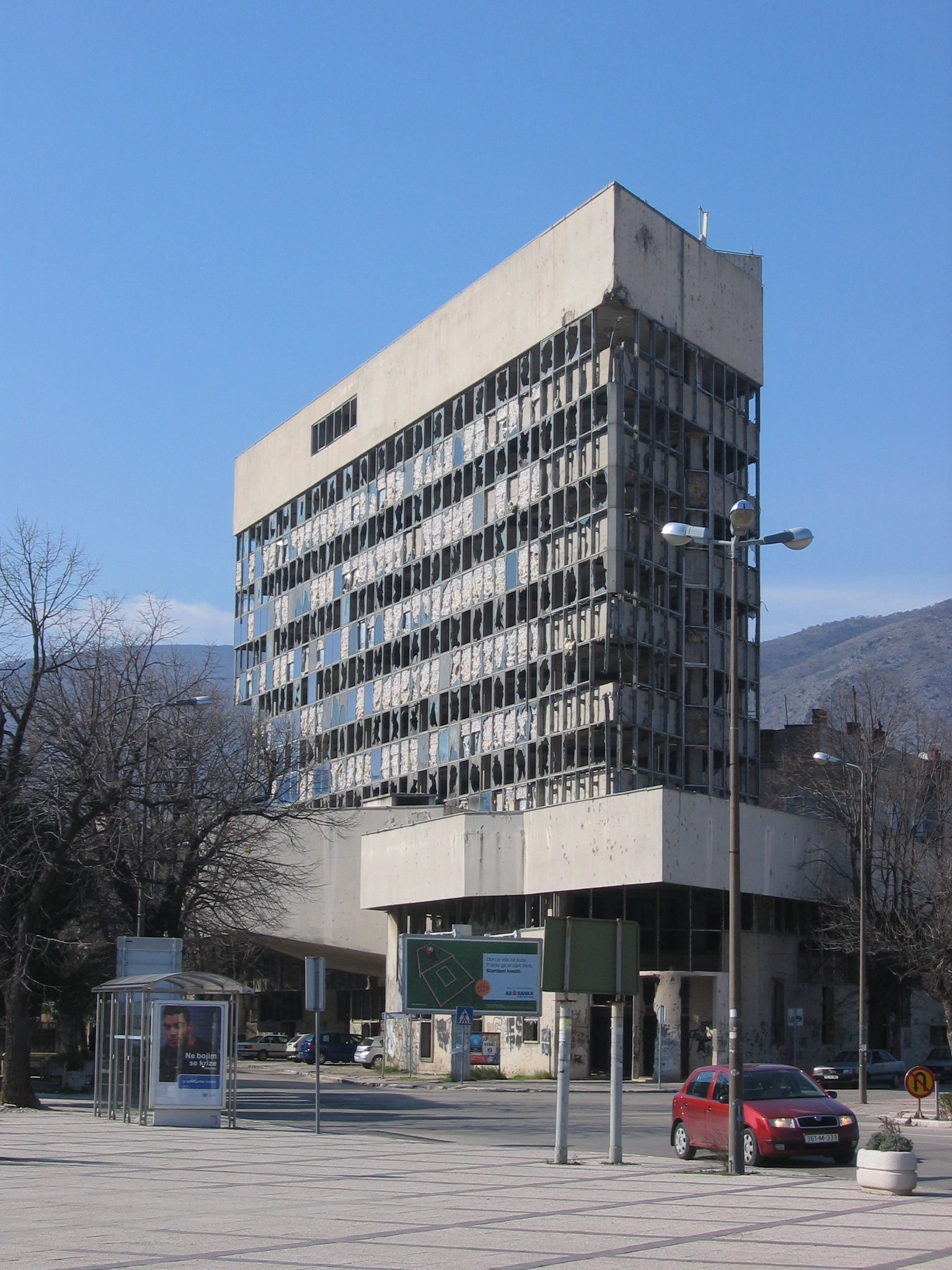 A ruined building on the Bosnian (western) side of Mostar.